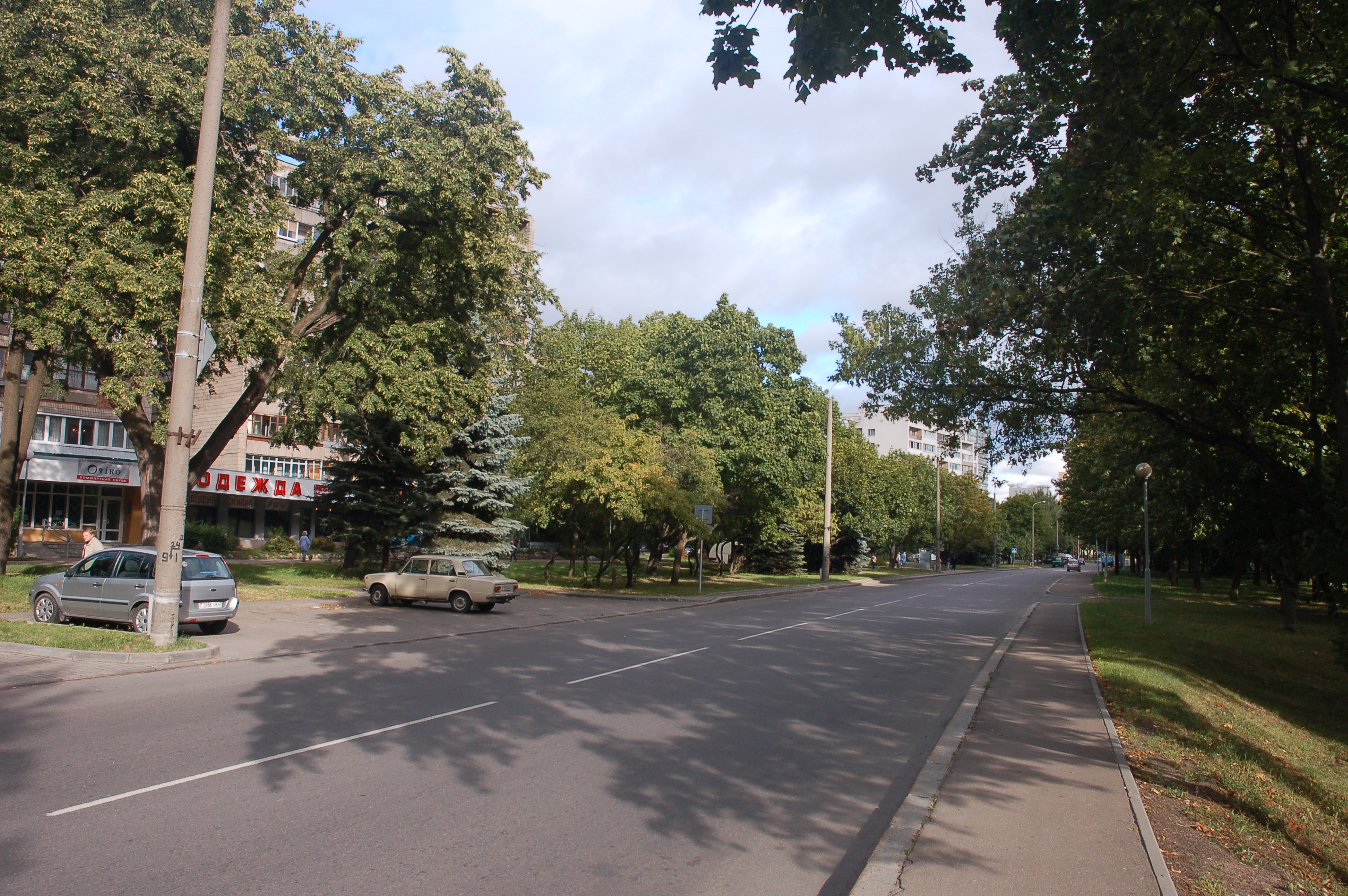 Minsk, Pulichava Street